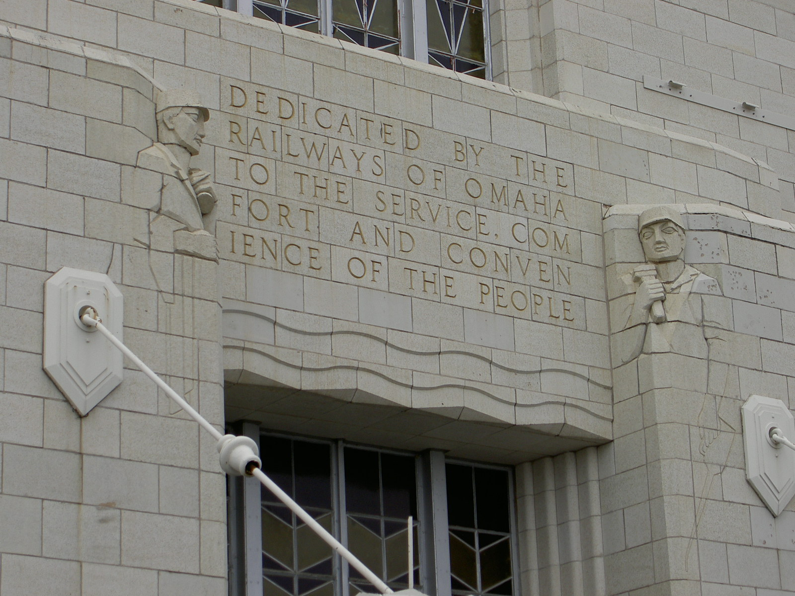 I noticed that there were no pictures of the Union Station here and it's article describes the architecture. I made this picture on a Feb. 2005 road trip and think it fits great to the article and really puts the massive size of Union Station into perspective. It is one of two pictures showing the famous quotes that are located above the entrances.